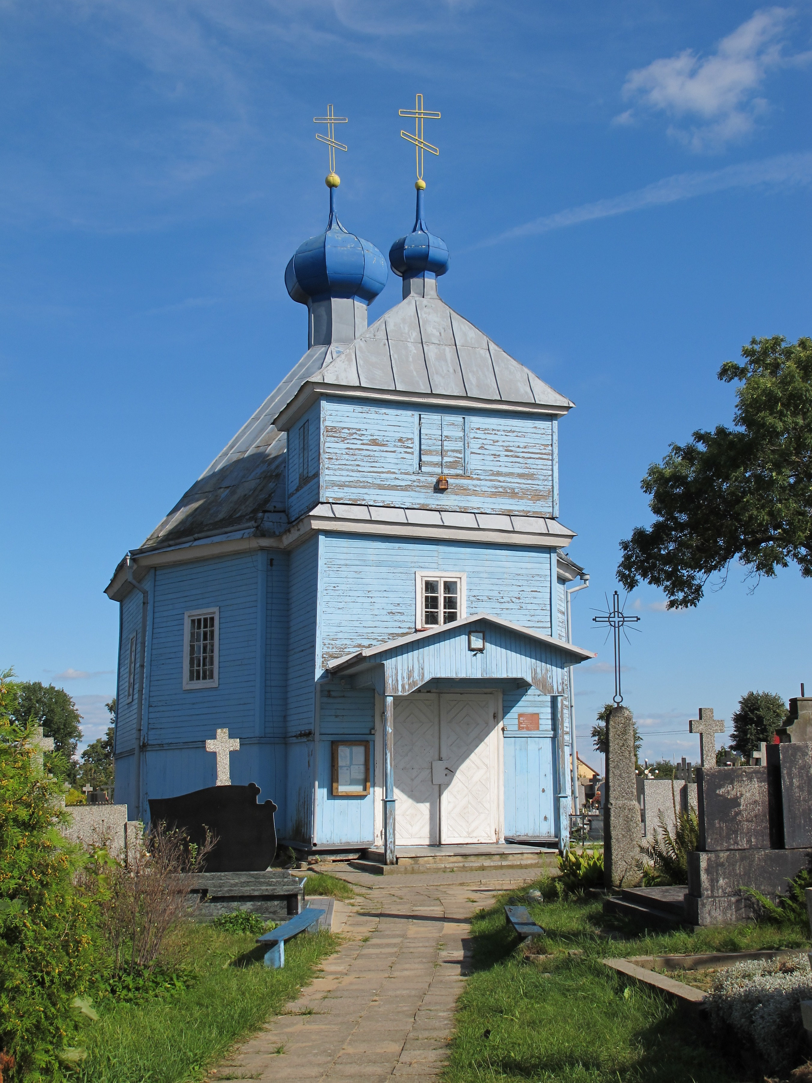 Holy Trinity orthodox cemetery church at city cemetery in Bielsk Podlaski, Poland